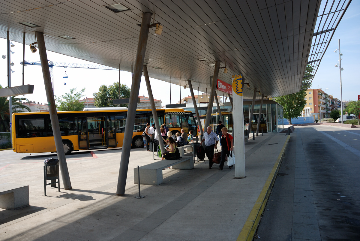 Blanes, Spain